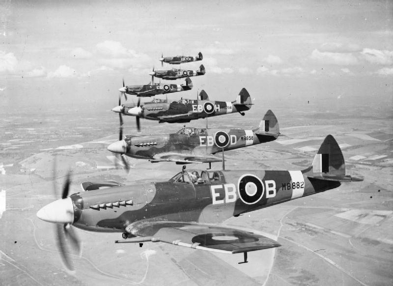 Royal Air Force- Air Defence of Great Britain (adgb), 1943-1944. Seven Spitfire F Mark XIIs (MB882 'EB-B' nearest) of No. 41 Squadron RAF based at Friston, Sussex, in flight over the South Downs.